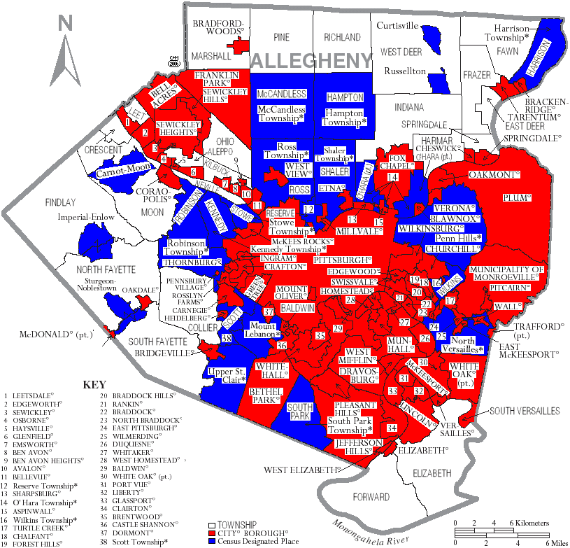 Map of Allegheny County, Pennsylvania, United States with township and municipal boundaries